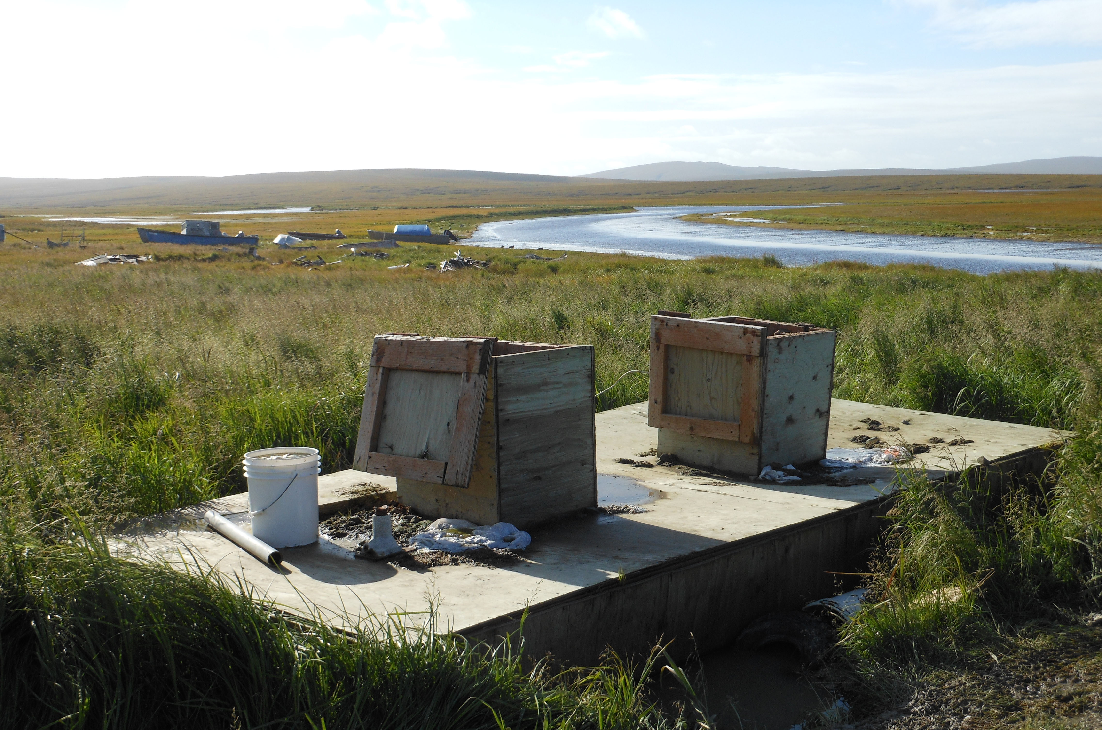 These are common waste collection sites on the Alaskan tundra. The U.S. Department of Agriculture (USDA) and its partners are working to retire systems like this and replace them with safe, sanitary water and sewer systems.